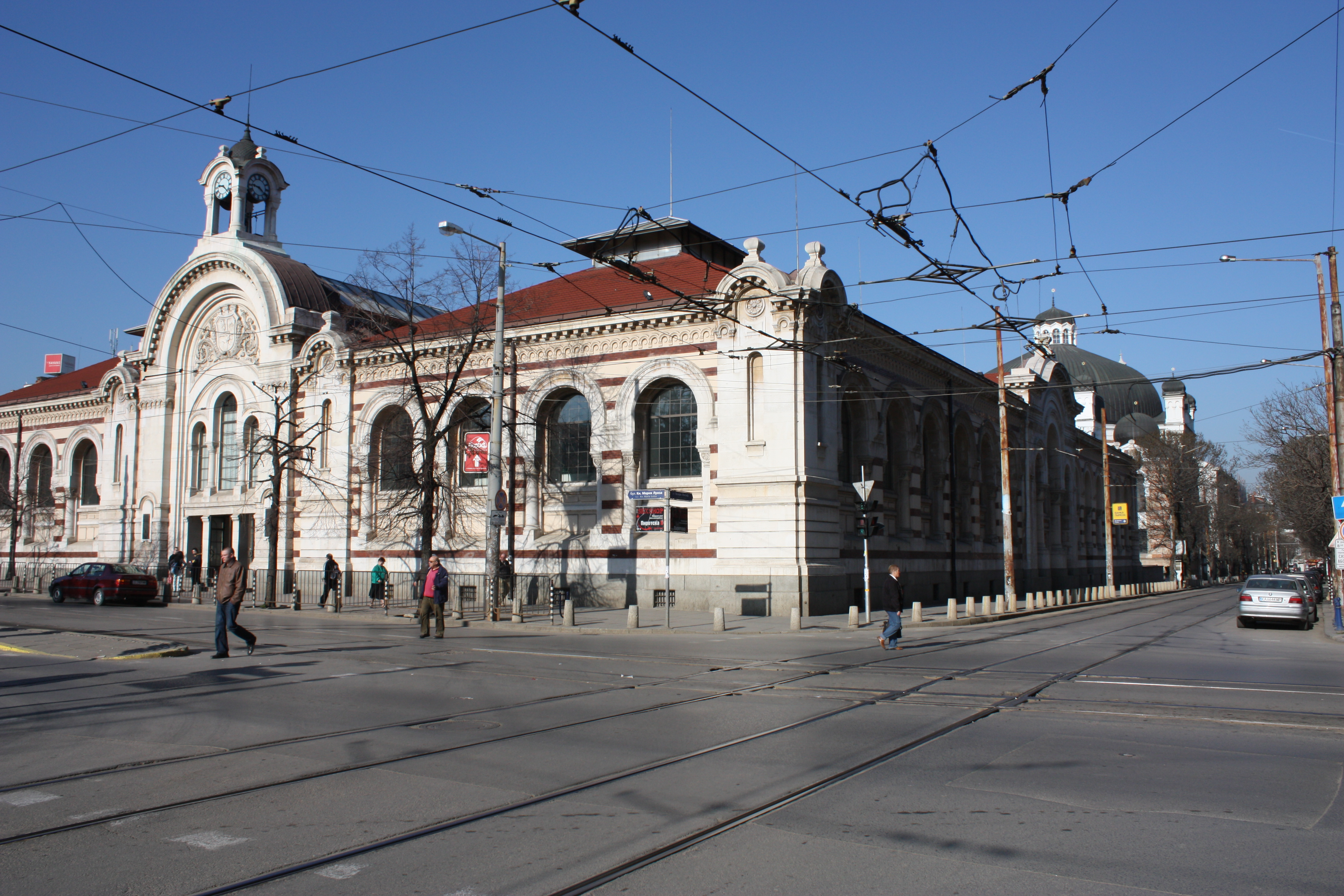 Zentralmarkthalle Sofia, Chalite, Sofia, Bulgaria